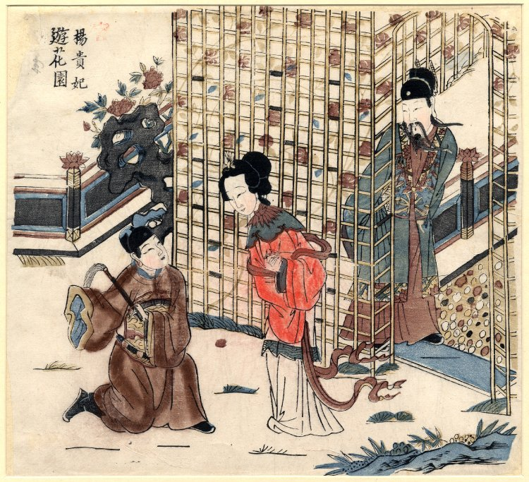 Yang Guifei (楊貴妃) is the beloved consort of Emperor Xuanzong (r. 712–56) of the Chinese Tang dynasty. Here, she is depicted in a flower garden. The other figures are the emperor who stands behind a lattice screen and a scholar-official.